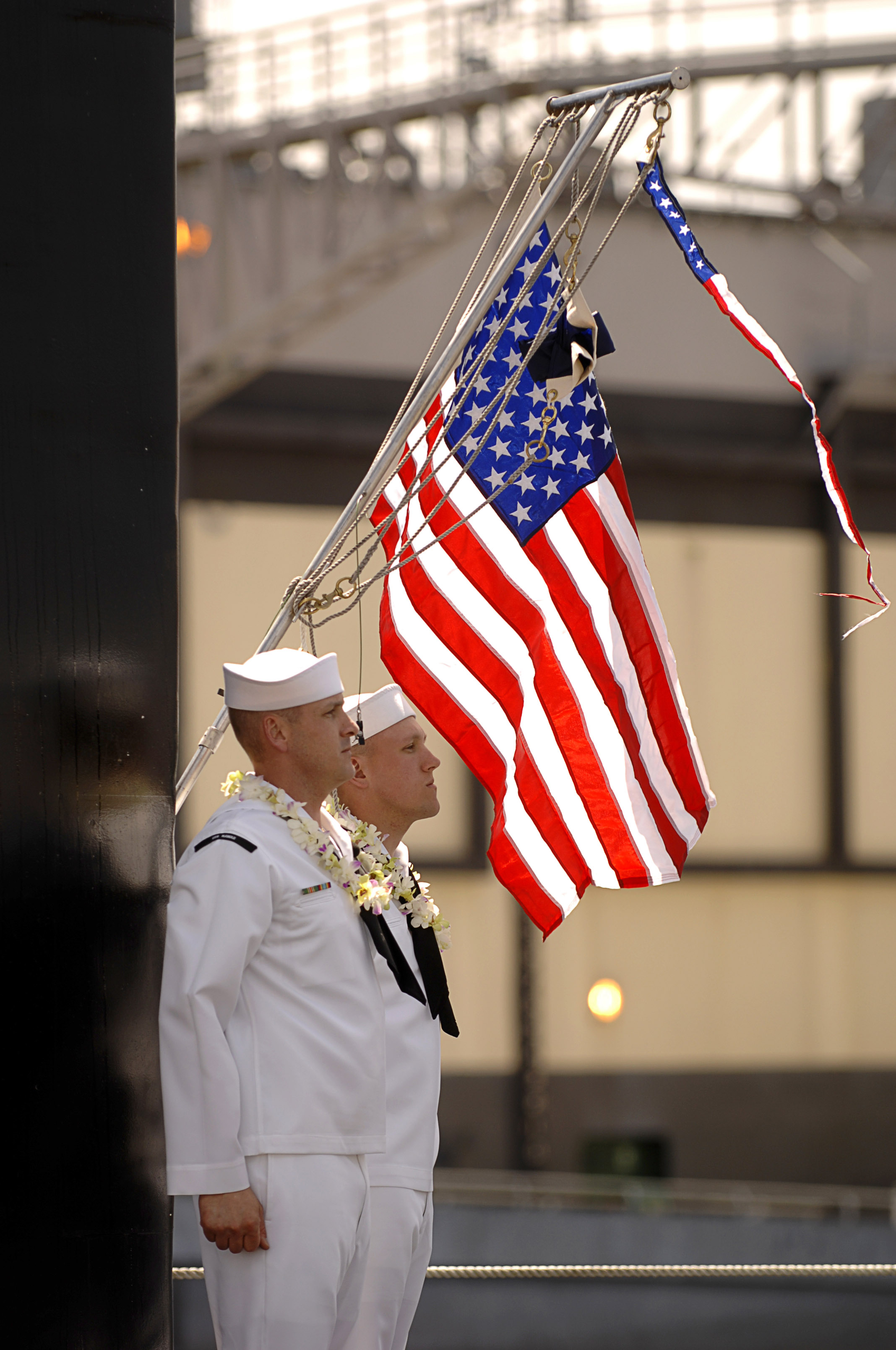 GROTON, Conn. (May. 5, 2007) - Sailors assigned to USS Hawaii (SSN 776) stand at attention after hoisting the National Ensign and Commissioning Pennant, placing the ship in active service. Hawaii is the third Virginia-class submarine to be commissioned, and the 1st major U.S. Navy combatant vessel class designed with the post-Cold War security environment in mind and embodies the war fighting and operational capabilities required to dominate the littorals while maintaining undersea dominance in the open ocean. U.S. Navy photo by Chief Mass Communication Specialist Shawn P. Eklund (RELEASED)